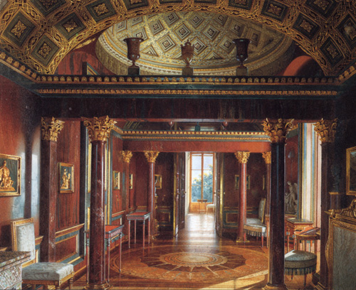 Pushkin (Russia), Agate Rooms of the Catherine Palace